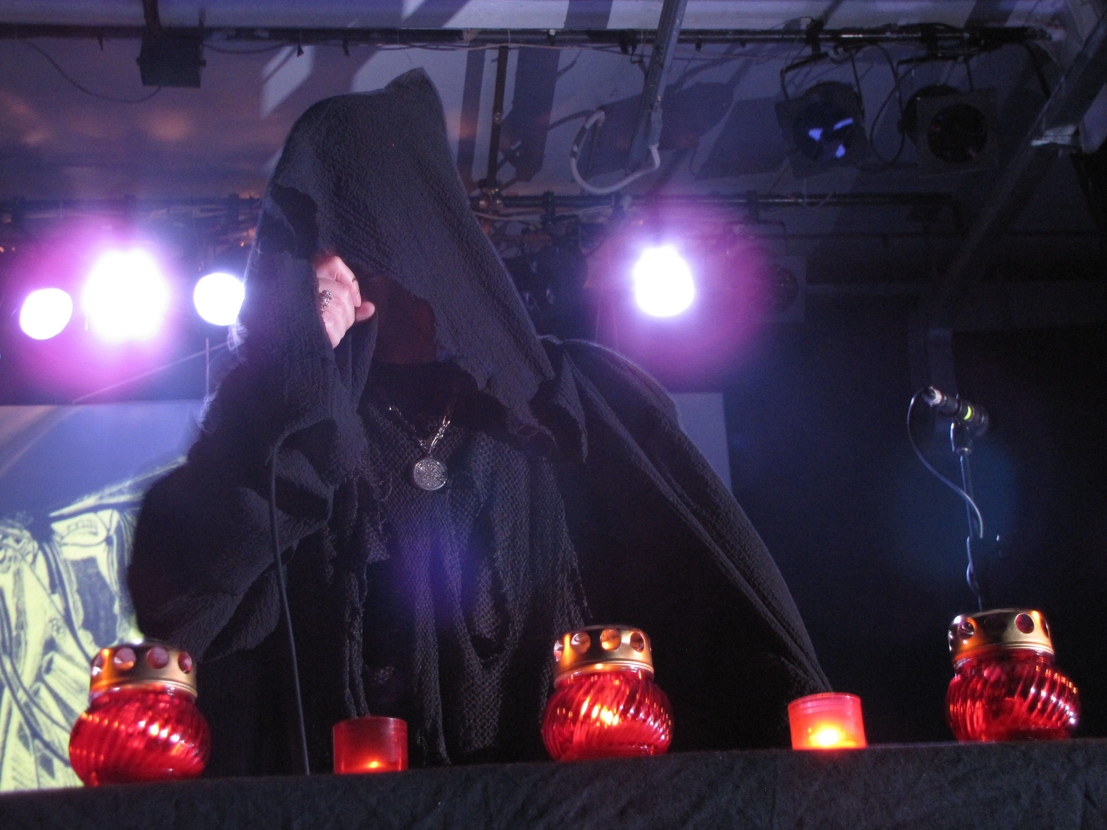 Attila Csihar live with his solo project Void ov Voices